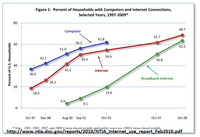 NTIA(2010) report